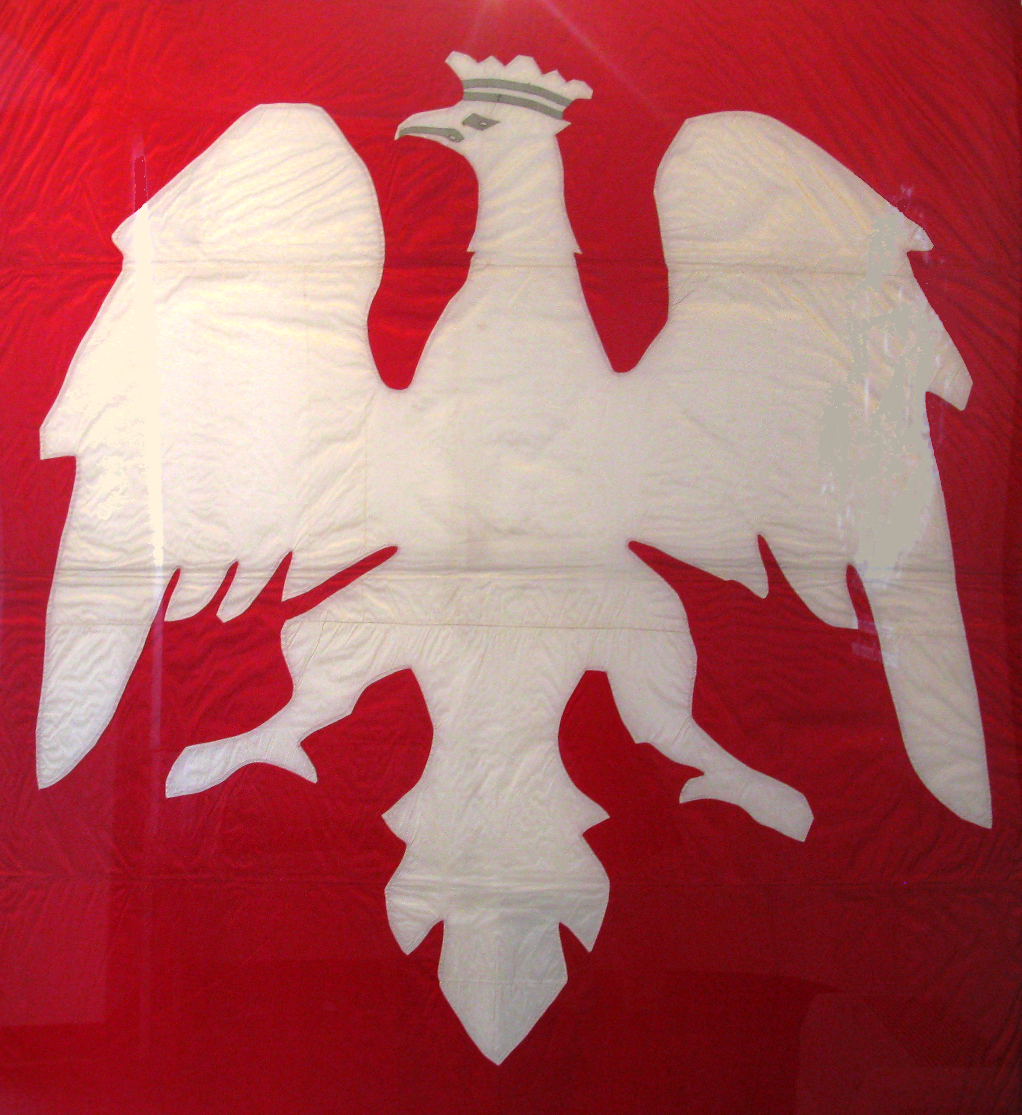 Polish Maritime flag of January Uprising of ship "Princess" confiscated by Spanish Navy in 1863 under pressure of Russian Embassy